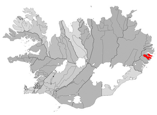 Based on Municipalities of Iceland.png.